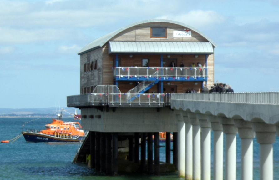 Bembridge, Isle of Wight lifeboat station during naming ceremony of the new lifeboat